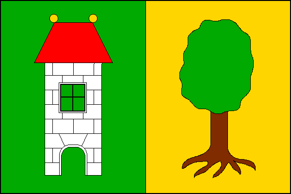 Municipal flag of Druztová village, Plzeň-North District, Czech Republic.